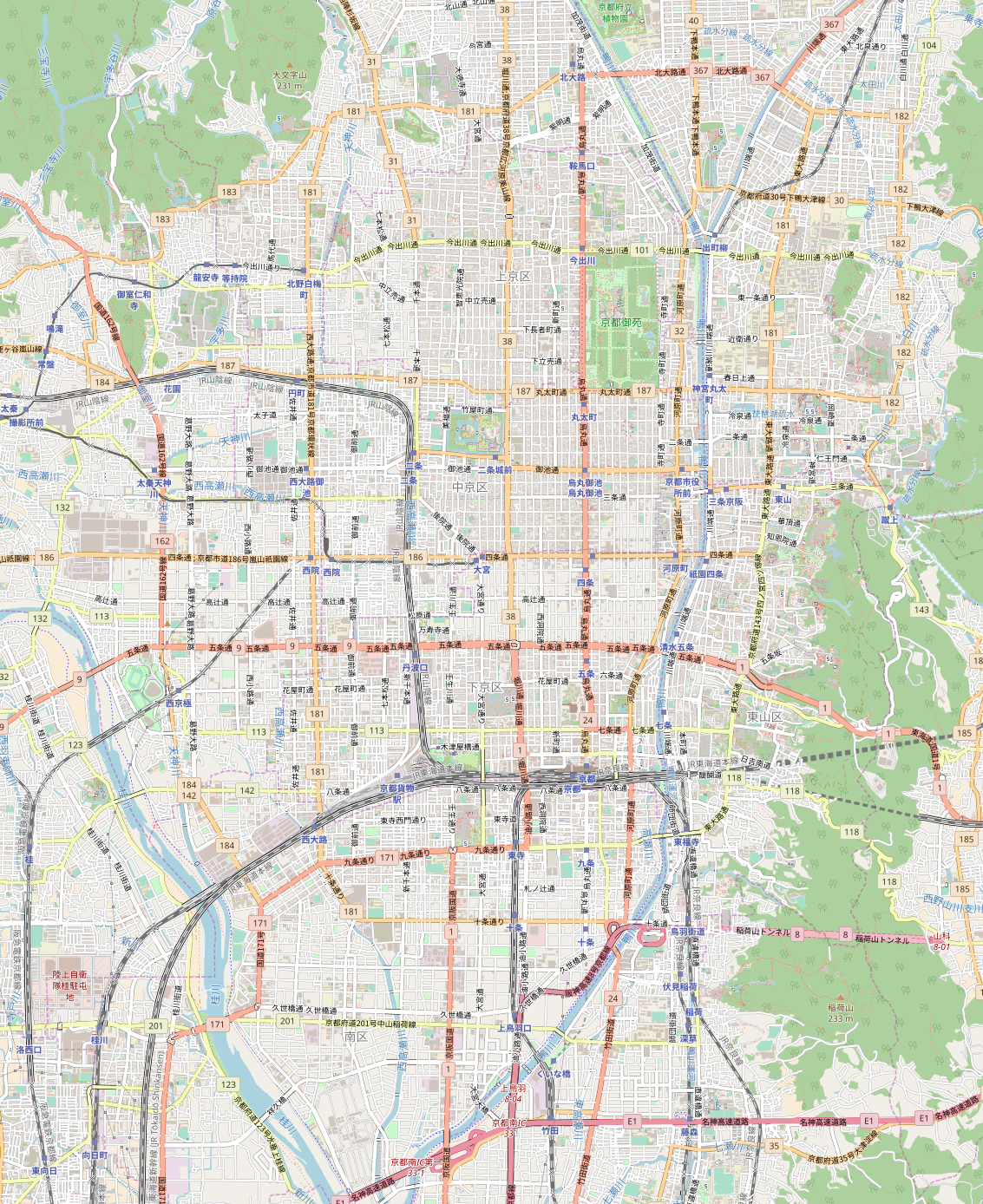 This map of Kyoto was created from OpenStreetMap project data, collected by the community. This map may be incomplete, and may contain errors. Don't rely solely on it for navigation.